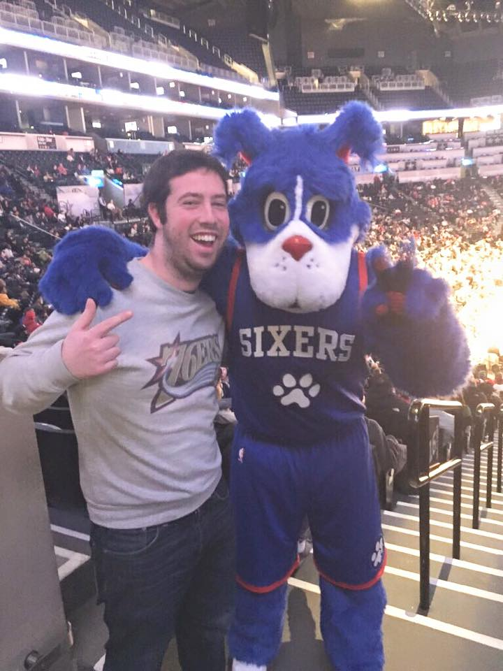 Philadelphia 76ers' mascot Franklin the Dog at the Barclays Center, Brooklyn, as part of the NBA All Star Weekend 2015.